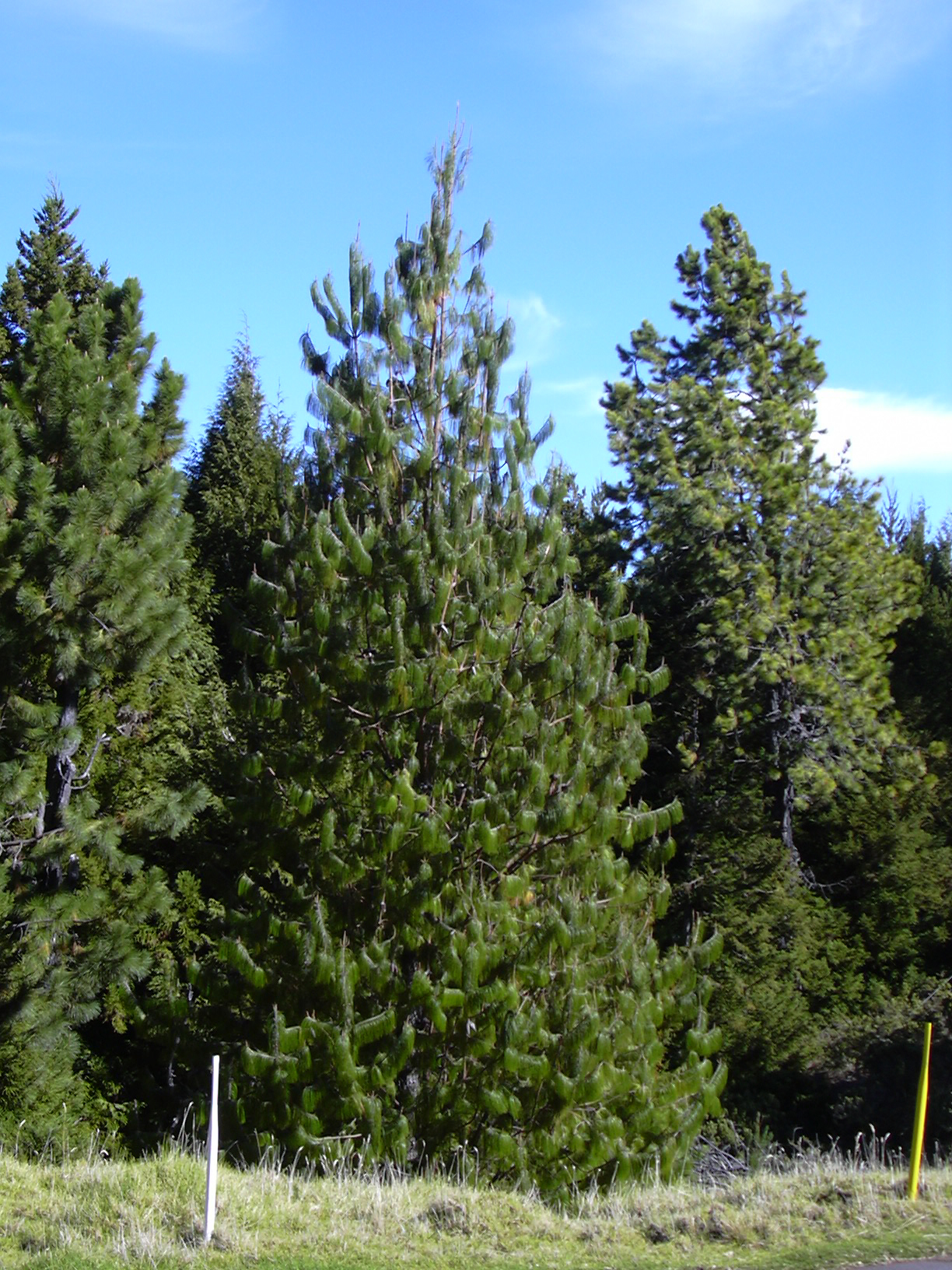 Pinus patula (habit). Location: Maui, Crater Rd